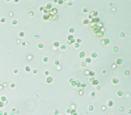 Nannochloropsis sp. microalgae viewed under a light microscope. Photo taken at Wageningen University.